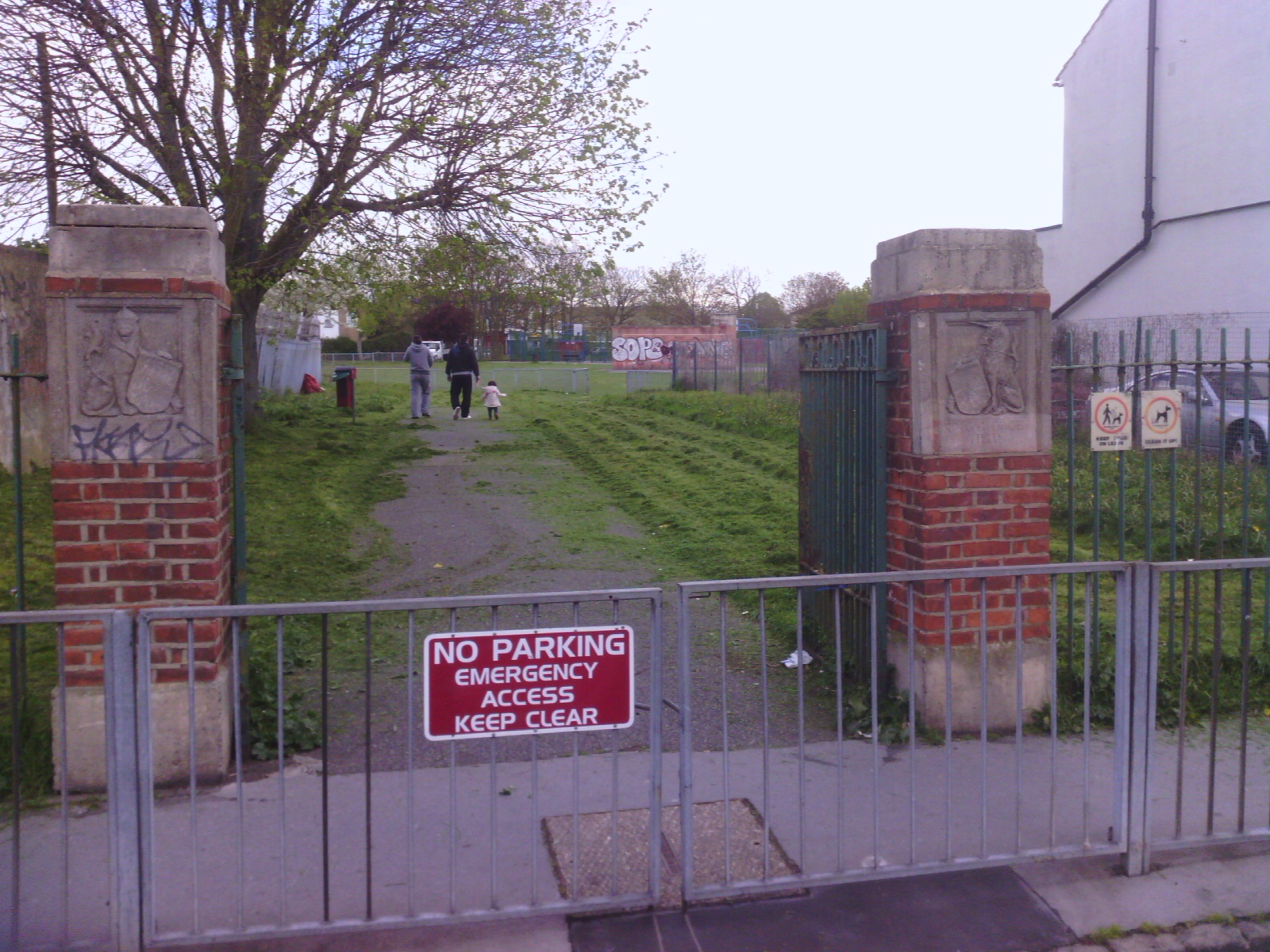 Entrance to King George's Field in Sydenham Road, Croydon, England